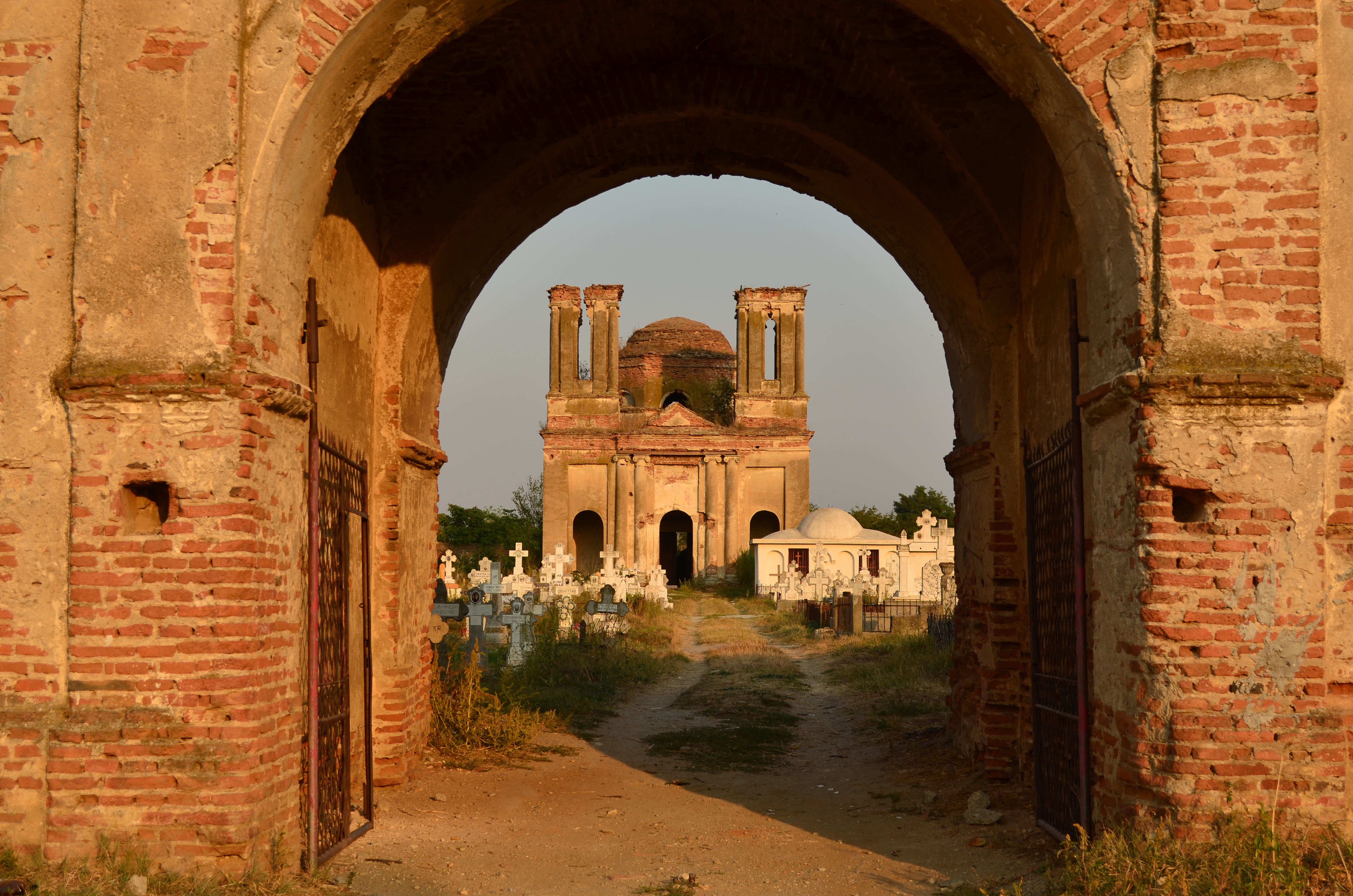 "Sf. Nicolae" church 02